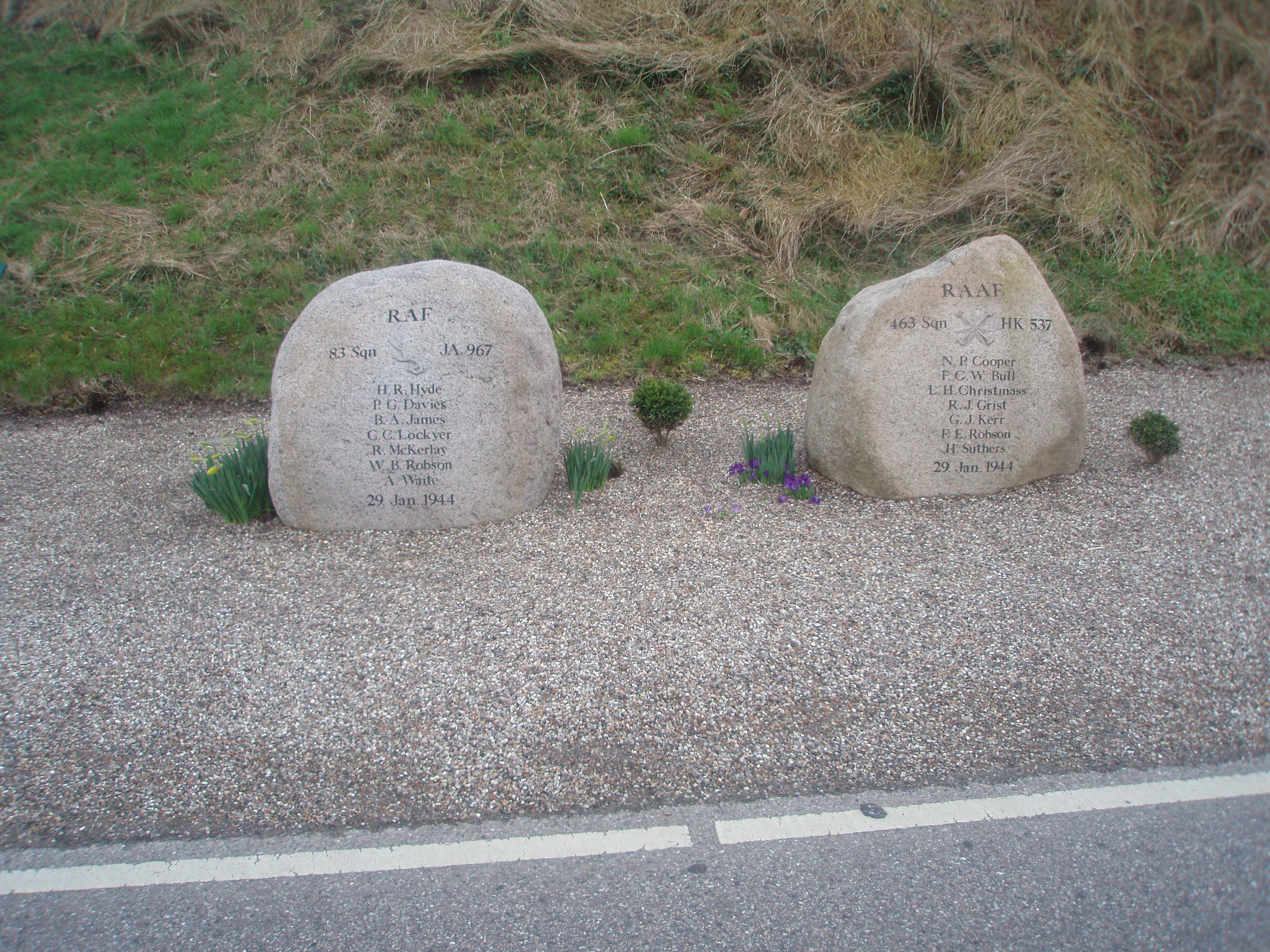 Memorials for the crews of 2 crashed British bombers in WW2. Broballe, Denmark